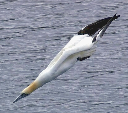 Gannet (Morus bassana), Belmont Gannets feed mainly by plunge-diving and just before impact they fold their wings back behind the tail.